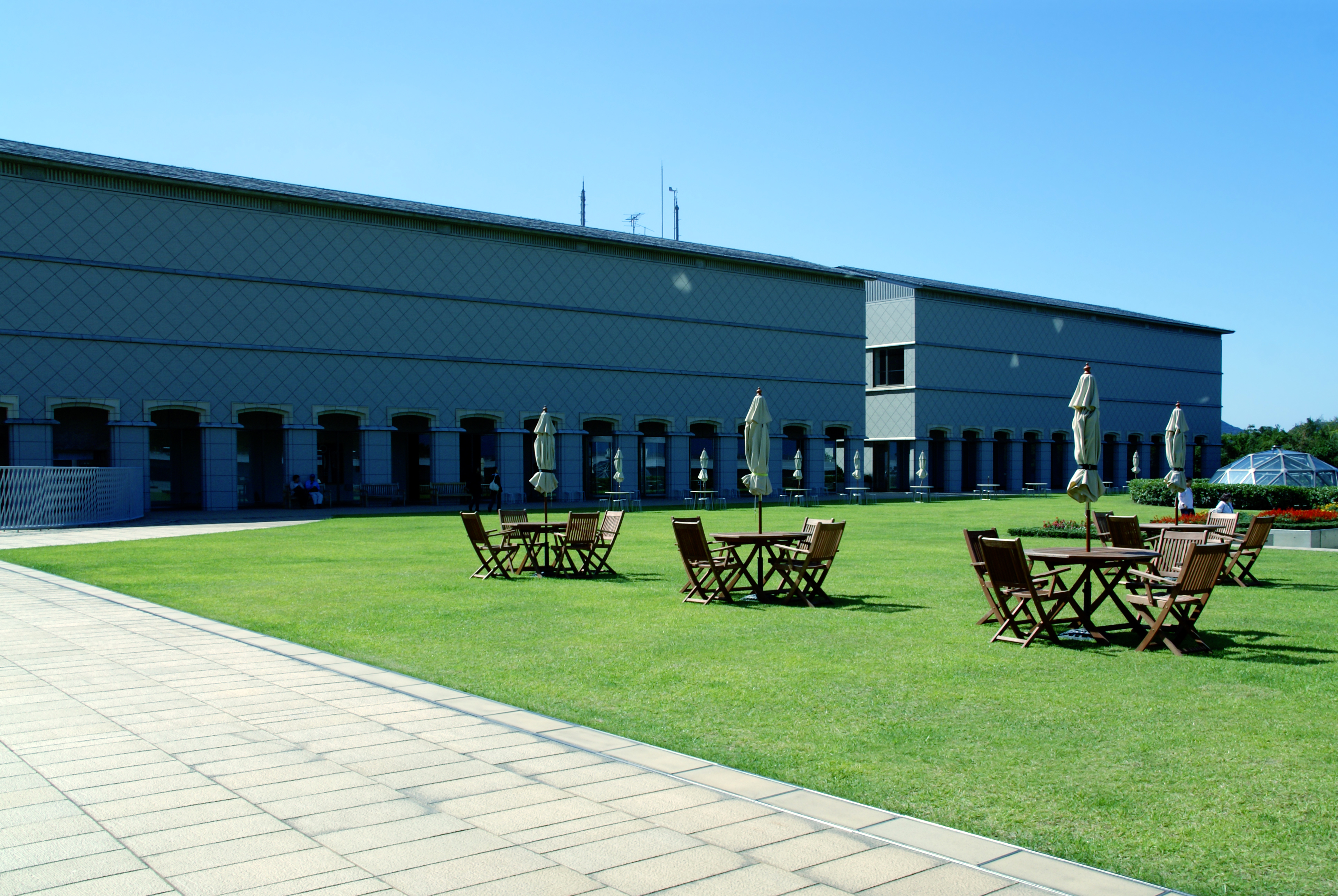 Ōtsuka Museum of Art in Naruto, Tokushima prefecture, Japan.